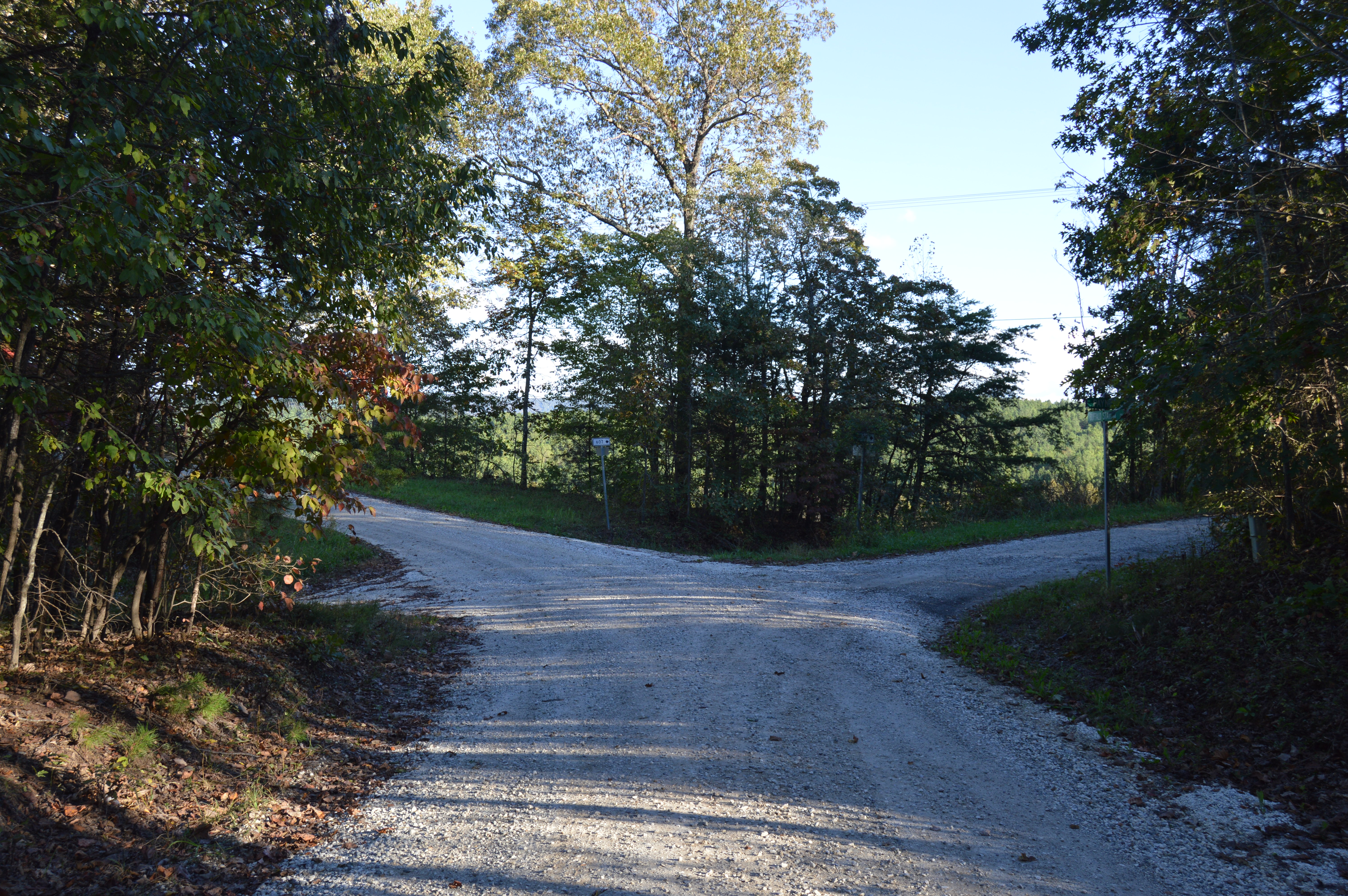 Approaching from the west the spot once known as Four Forks, located at the intersection of Norwood Road, Buffalo Station Drive, Greenway Lane, and Payne Place in Nelson County, Virginia, United States.